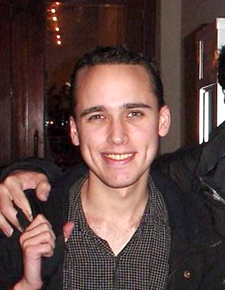 based on Image:Lmp.jpg Group photo of Adrian Lamo, Kevin Mitnick, and Kevin Lee Poulsen circa 2001. Photo by Matthew Griffiths; rights assigned to Adrian Lamo, subsequently freely released to the public domain by same. First published by Wired News in 2002, without assignment of rights. No rights reserved, but please credit photographer (Matthew Griffiths) in subsequent use.